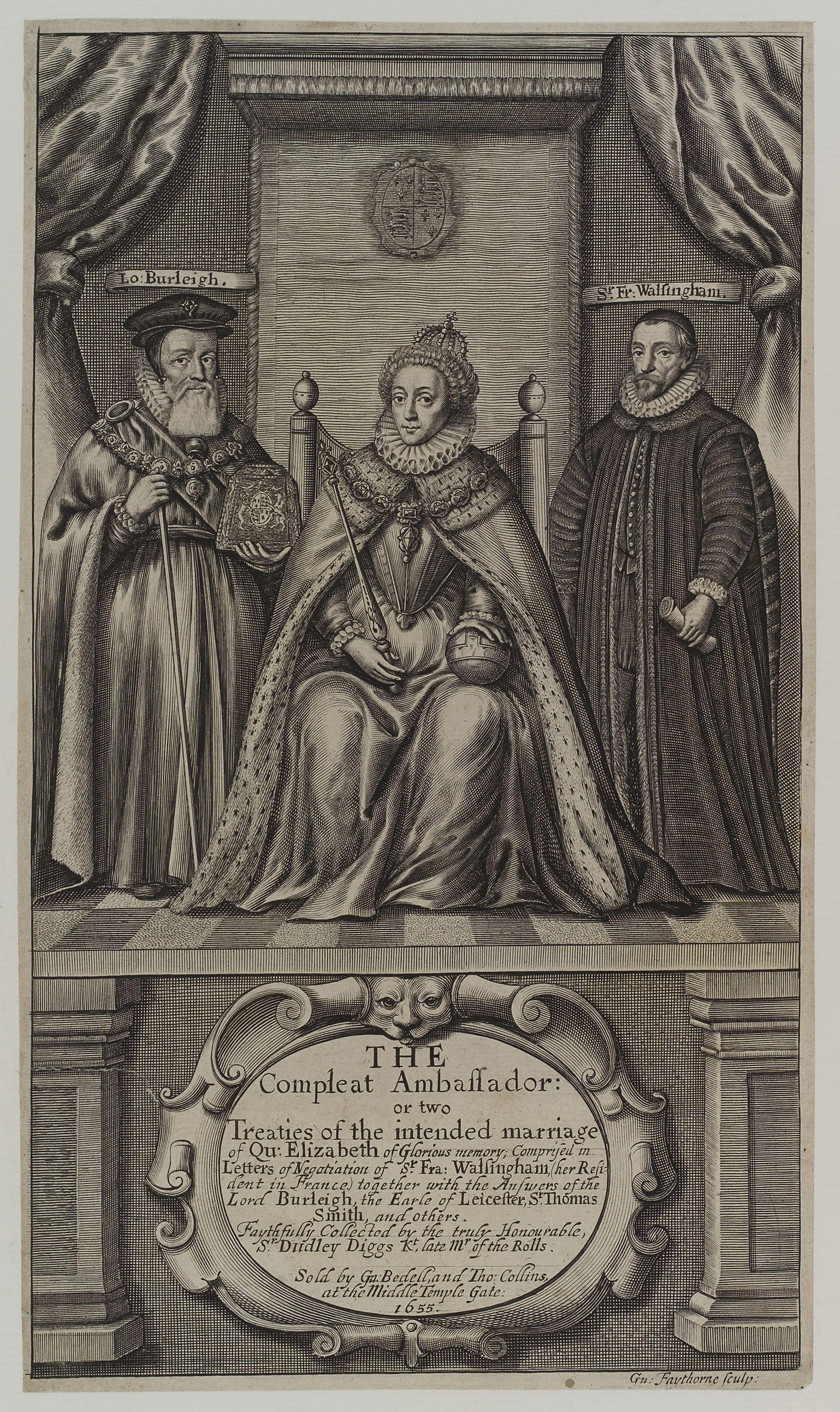 Queen Elizabeth I; Sir Francis Walsingham; William Cecil, 1st Baron Burghley, by William Faithorne (died 1696), given to the National Portrait Gallery, London in 1916. All images in this batch have been confirmed as author died before 1939 according to the official death date listed by the NPG.